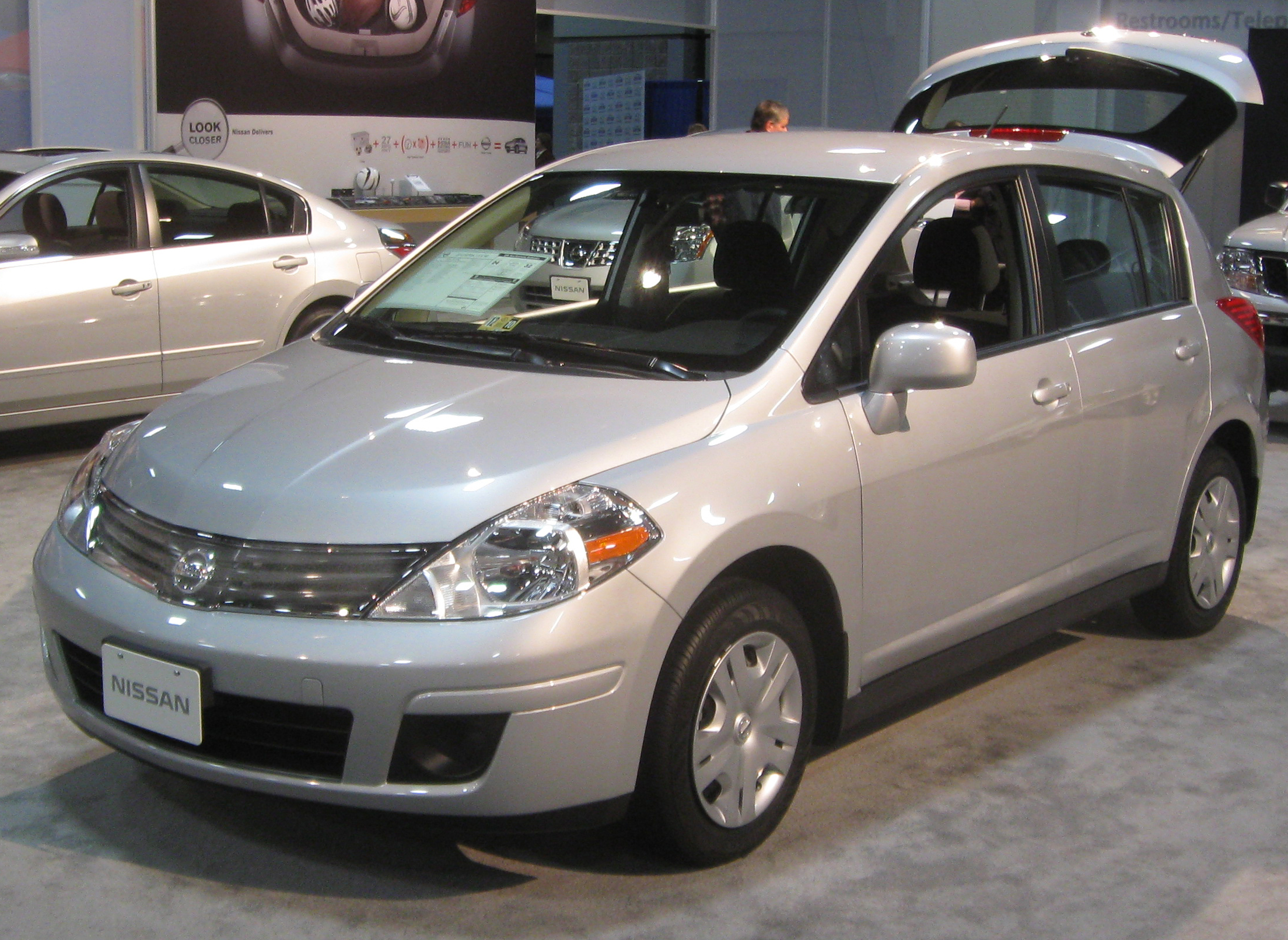 2010 Nissan Versa photographed at the 2010 Washington Auto Show.